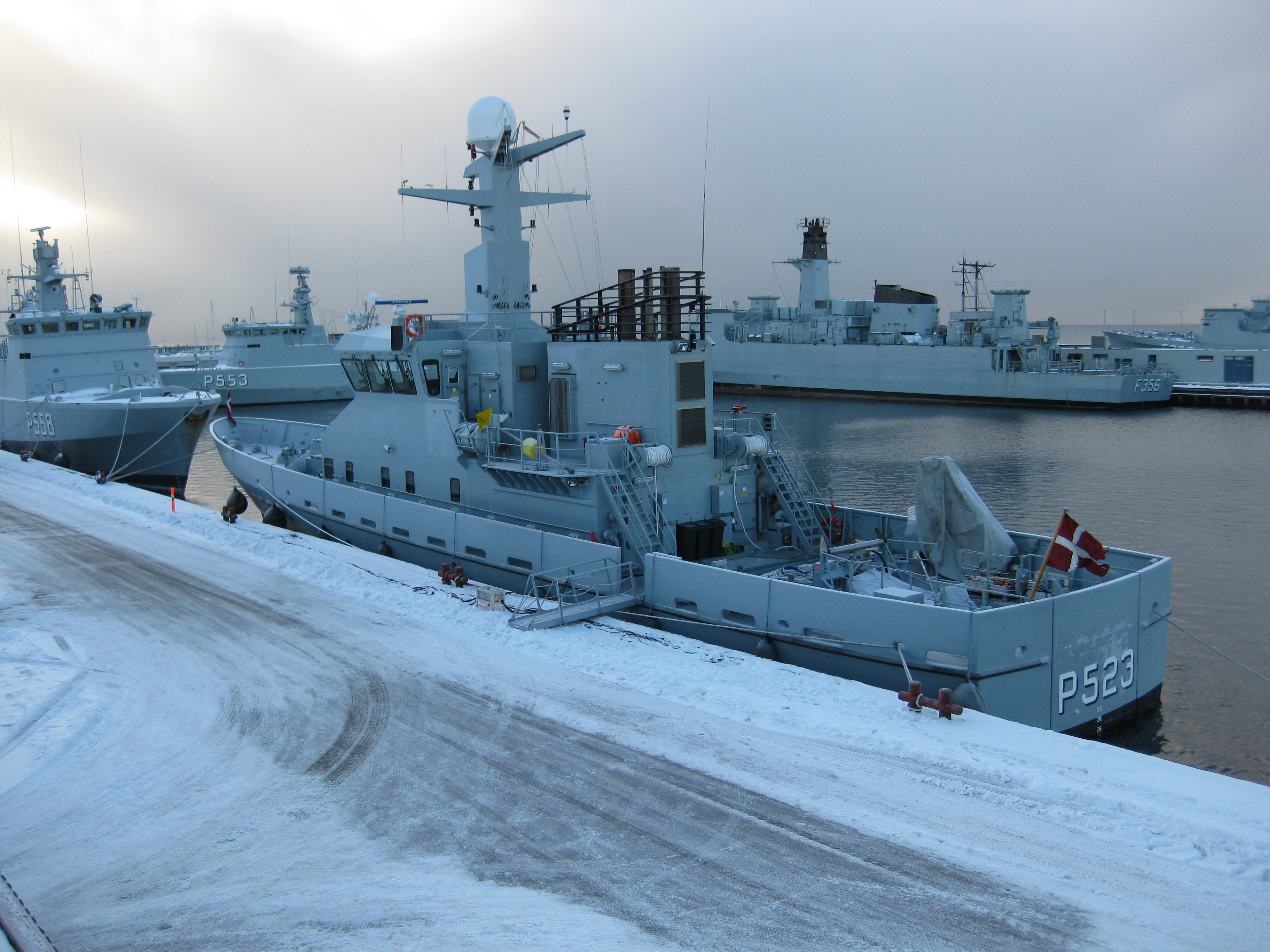 HDMS Najaden (P523) moored in naval base Korsør